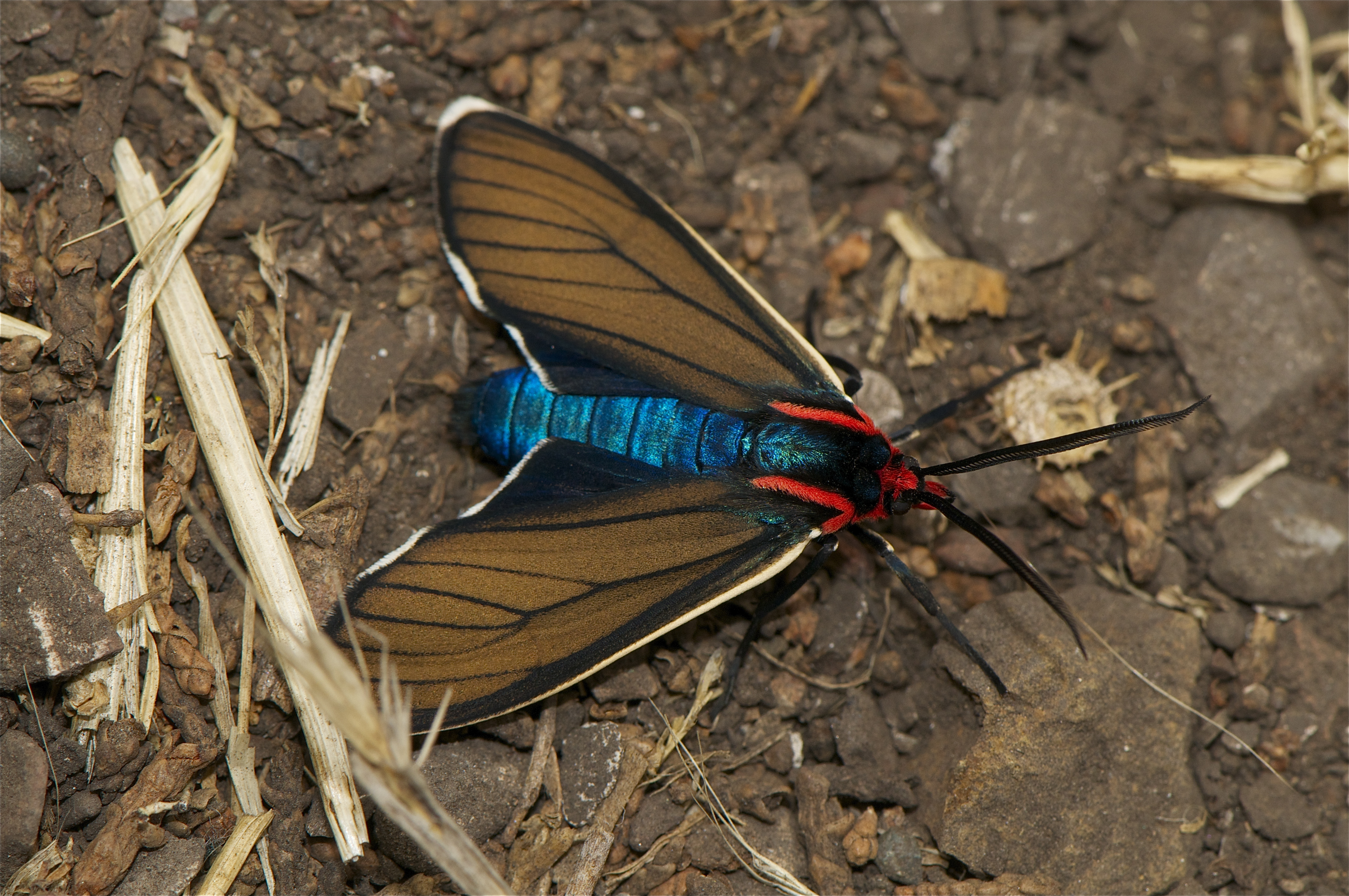 Virginia Ctenucha Moth